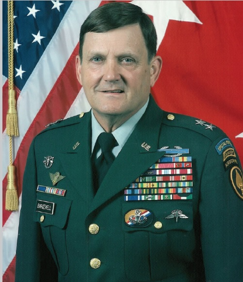 Major General Eldon Bargewell.; DISTINGUISHED MEMBER OF THE SPECIAL FORCES REGIMENT